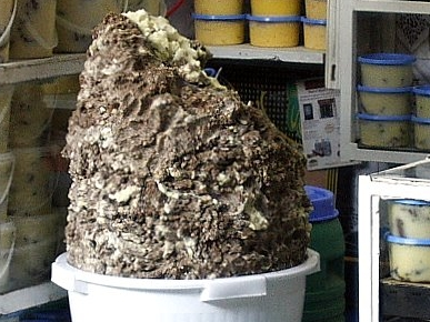 Khli, also called Khlea, or Kleehe in the center of the photo is preserved dried meat, especially beef. It is a kind of jerky in Maghrebian cuisine.